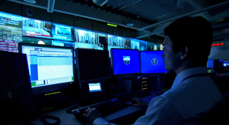 One of Defense Intelligence Agency's 24/7 watch centers.